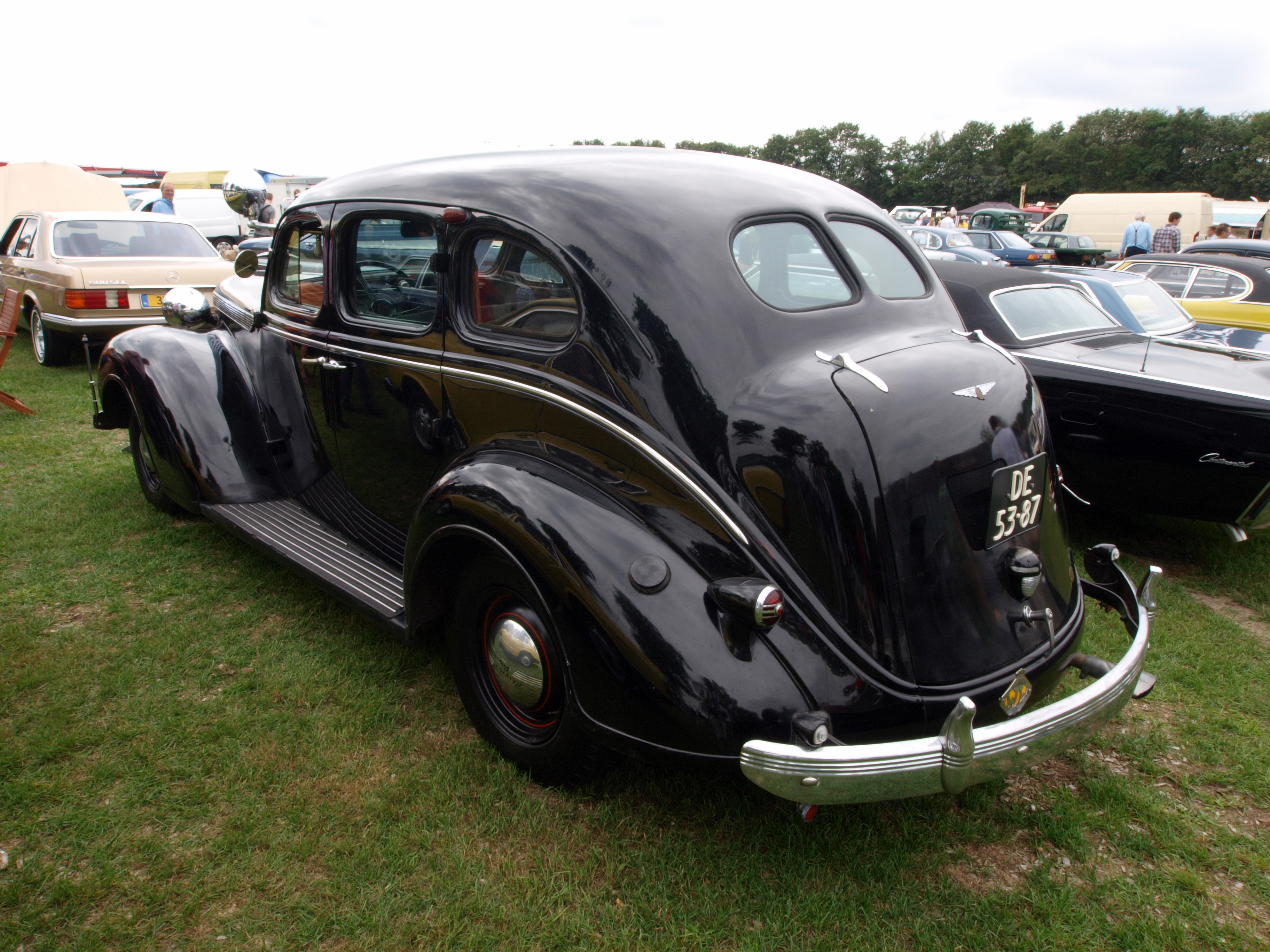 Photographed at the 2010 Autotron Classic car meeting, Rosmalen, The Netherlands. OLYMPUS DIGITAL CAMERA